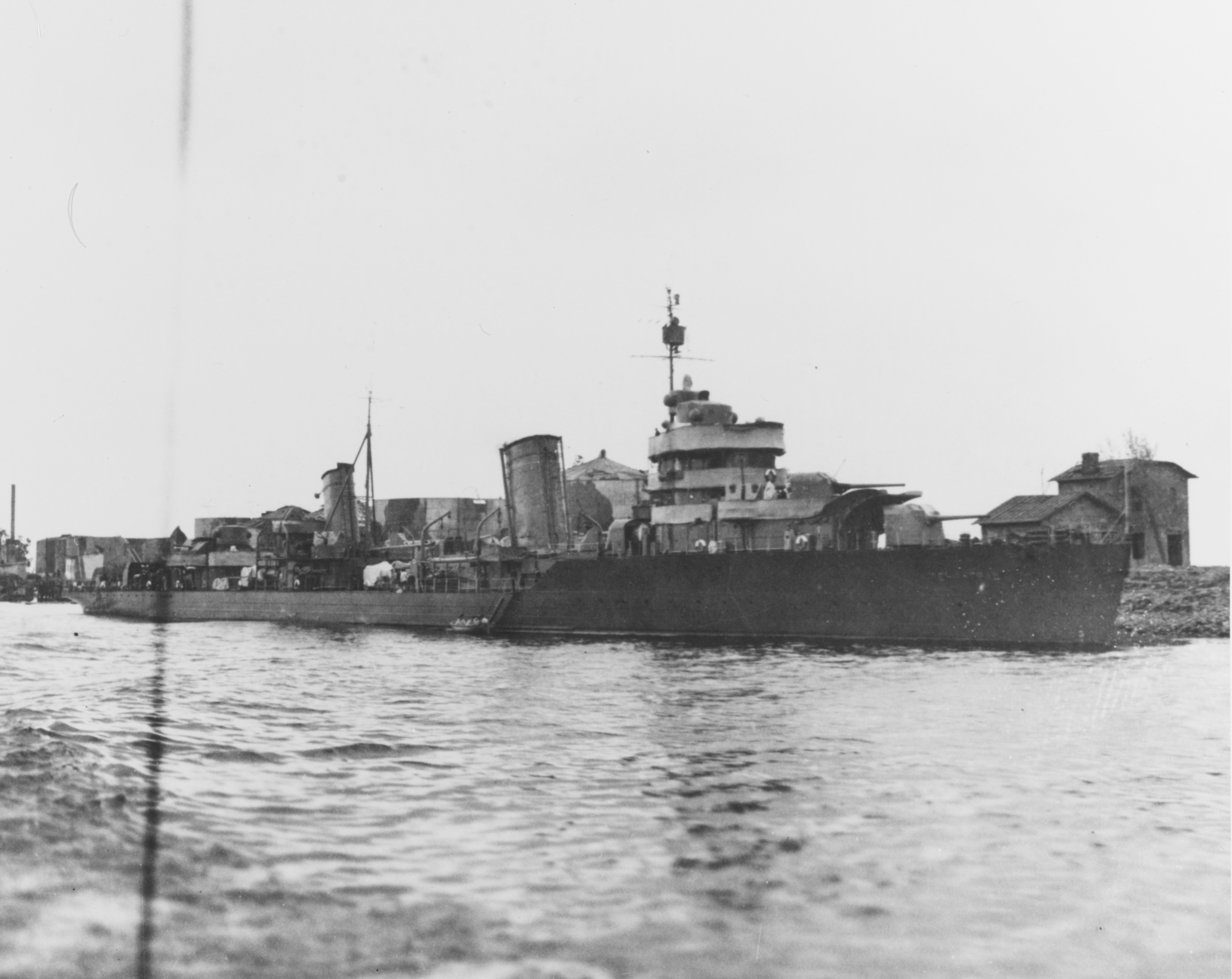 A Leningrad-class destroyer - either Leningrad or Moscow based on date and location